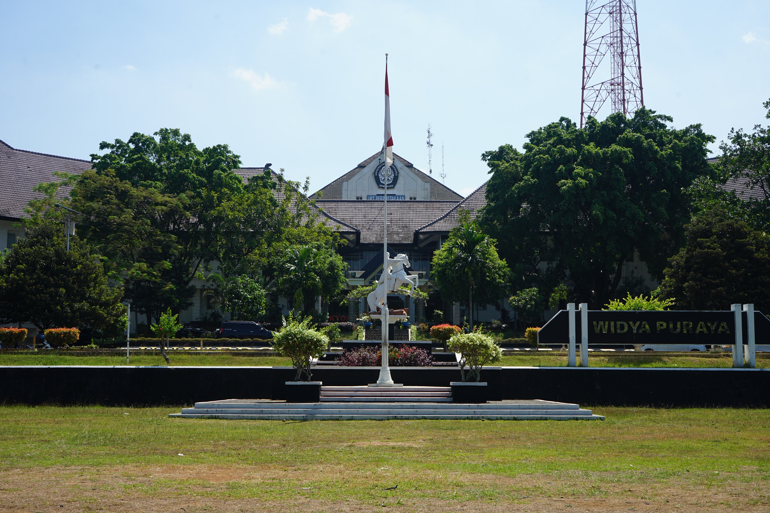 widya puraya universitas diponegoro